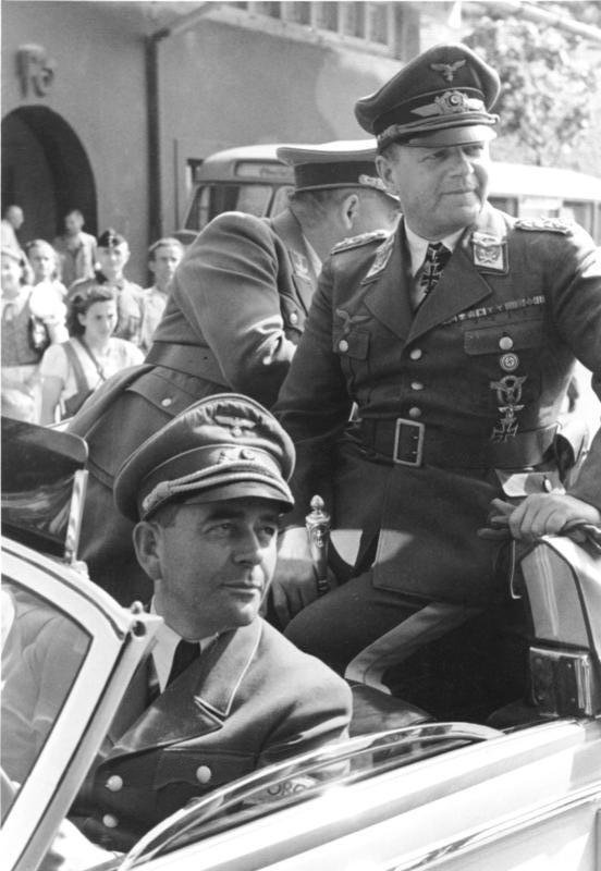 Information added by Wikimedia users.